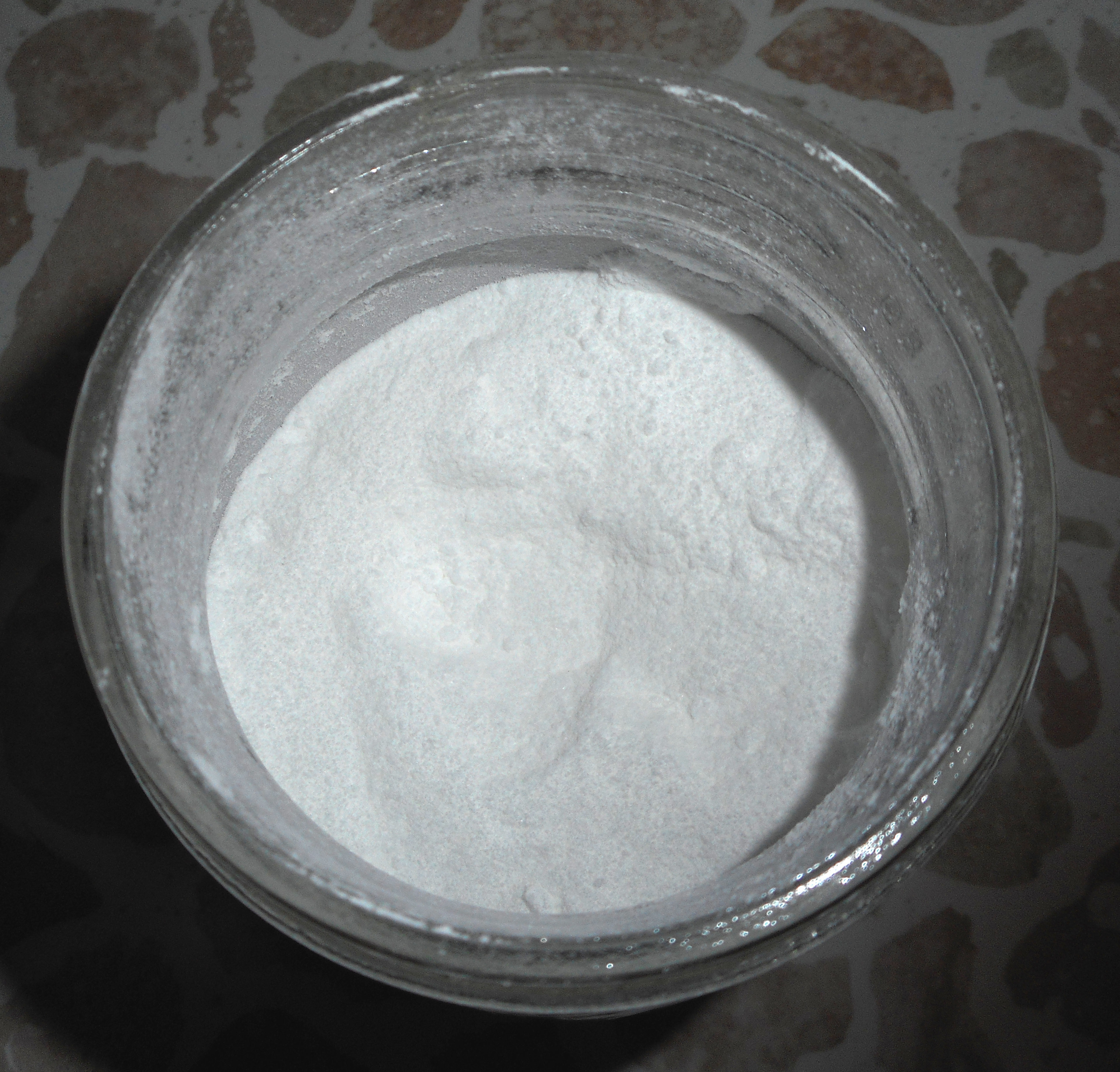 Neotame, a fine white powder, in a jar. File name before upload: DSCN6467-cropped-and-lightened-2019jul23n2.png